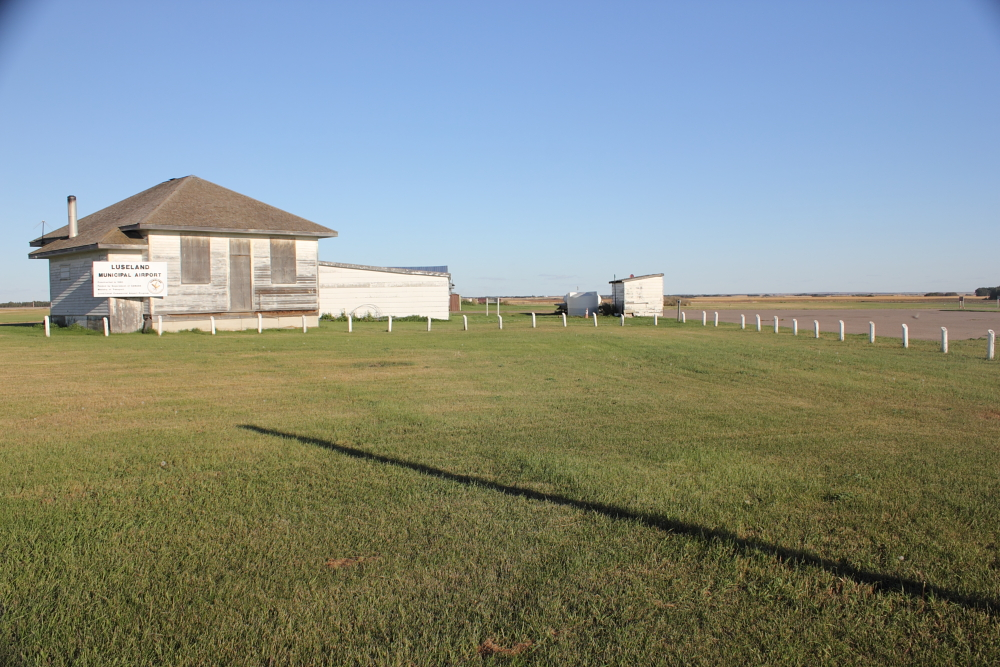 Luseland Airport :en:Airport codes||||CJR2 , is located adjacent to Luseland, Saskatchewan, Canada.